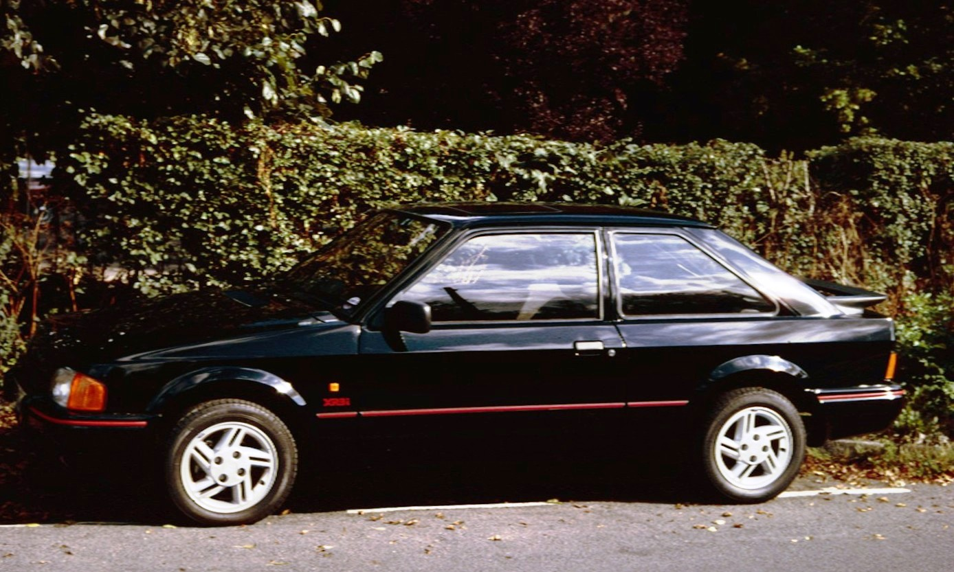 Ford Escort XR3i (4th iteration of Escort)